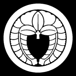 Japanese family'crest